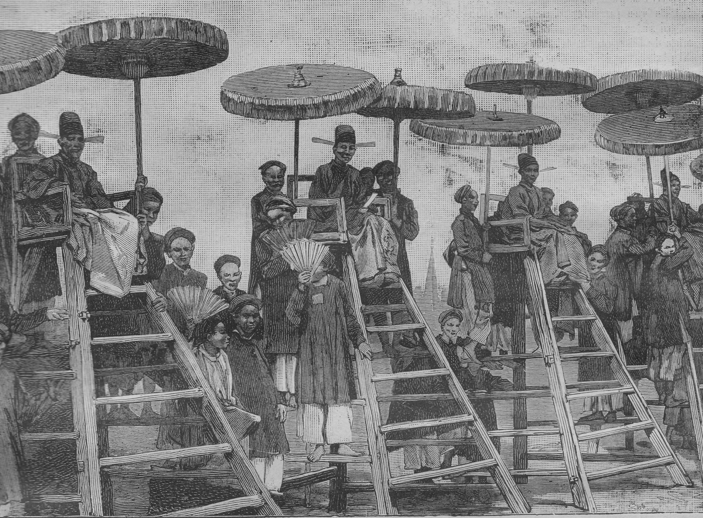 1888 Regional Examnination in Nam-định with mandarins seated on high chairs officiating the pronouncement ceremony of the successful laureates.